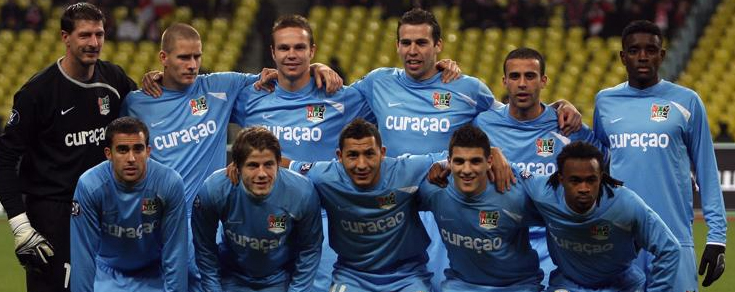 Nec Nijmegen, Dutch football club